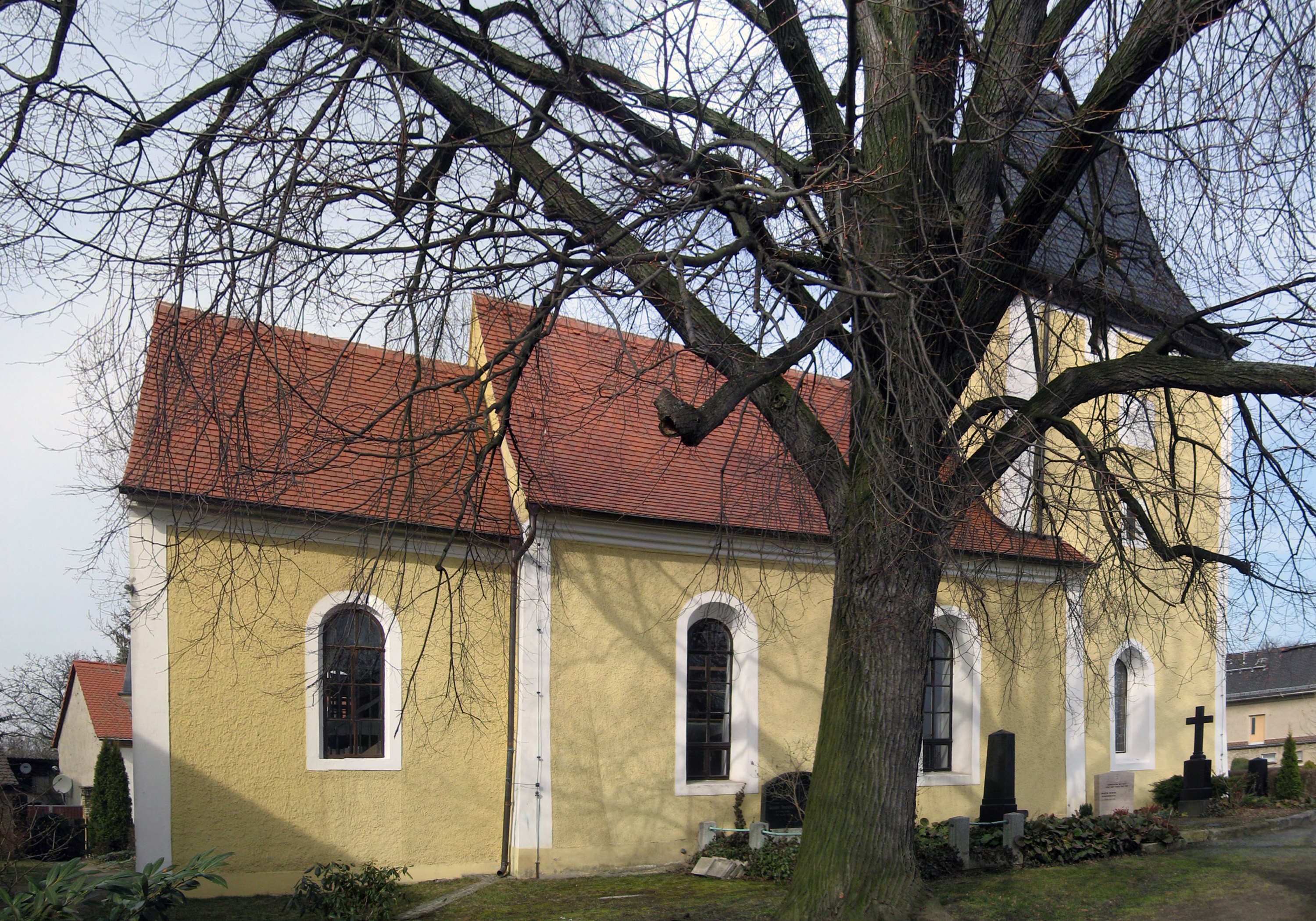 Church Leipzig-Seehausen, Seehausener Allee 33